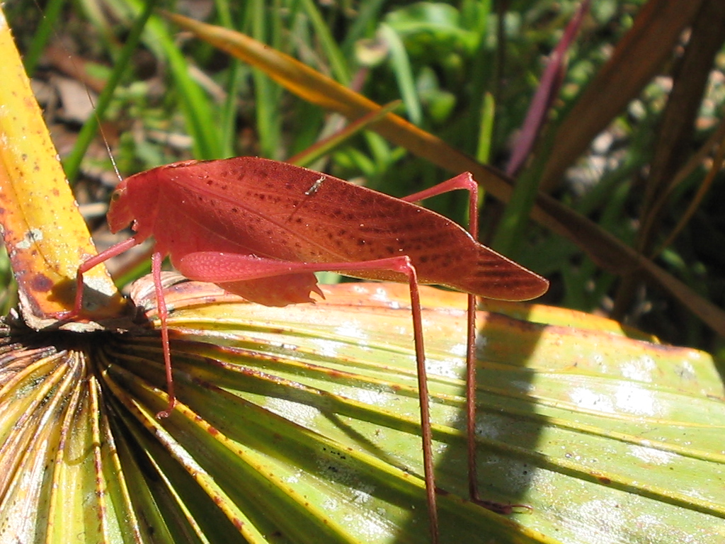 Pink-orange katydid on saw palmetto. They are usually green; this is an instance of erythrism. Taken during internship at the Florida Panther National Wildlife Refuge June/July 2005.